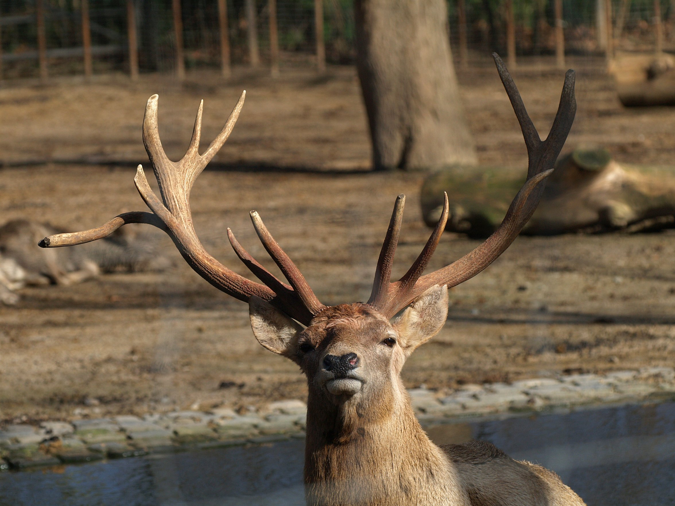 Male Cervus elaphus bactrianus (Bukhara Red Deer), from Cologne Zoo, Germany.